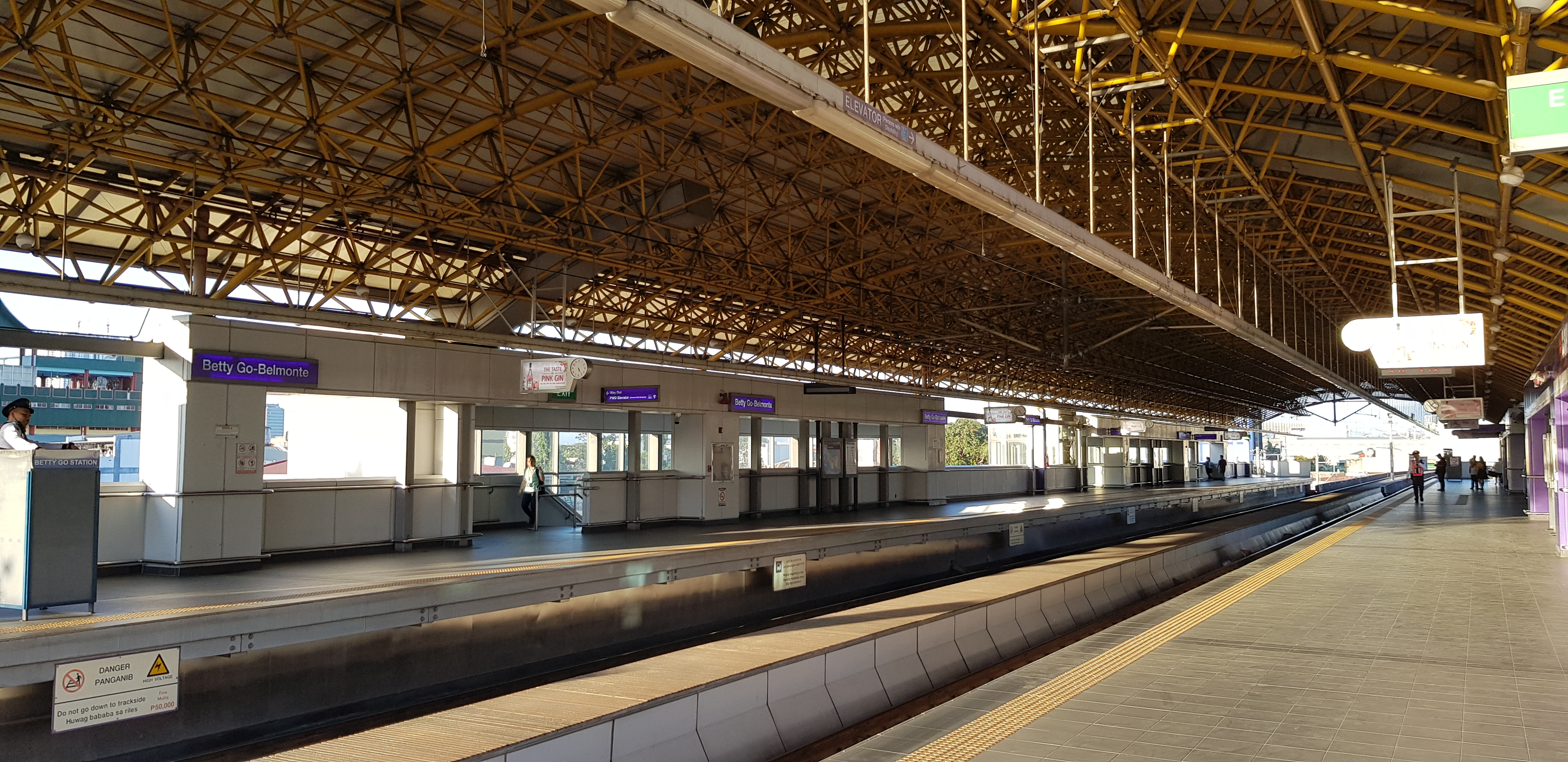 Line 2 Betty Go-Belmonte Station Platform